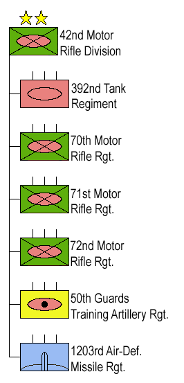 42nd Motor Rifle Division, Russian Ground Forces